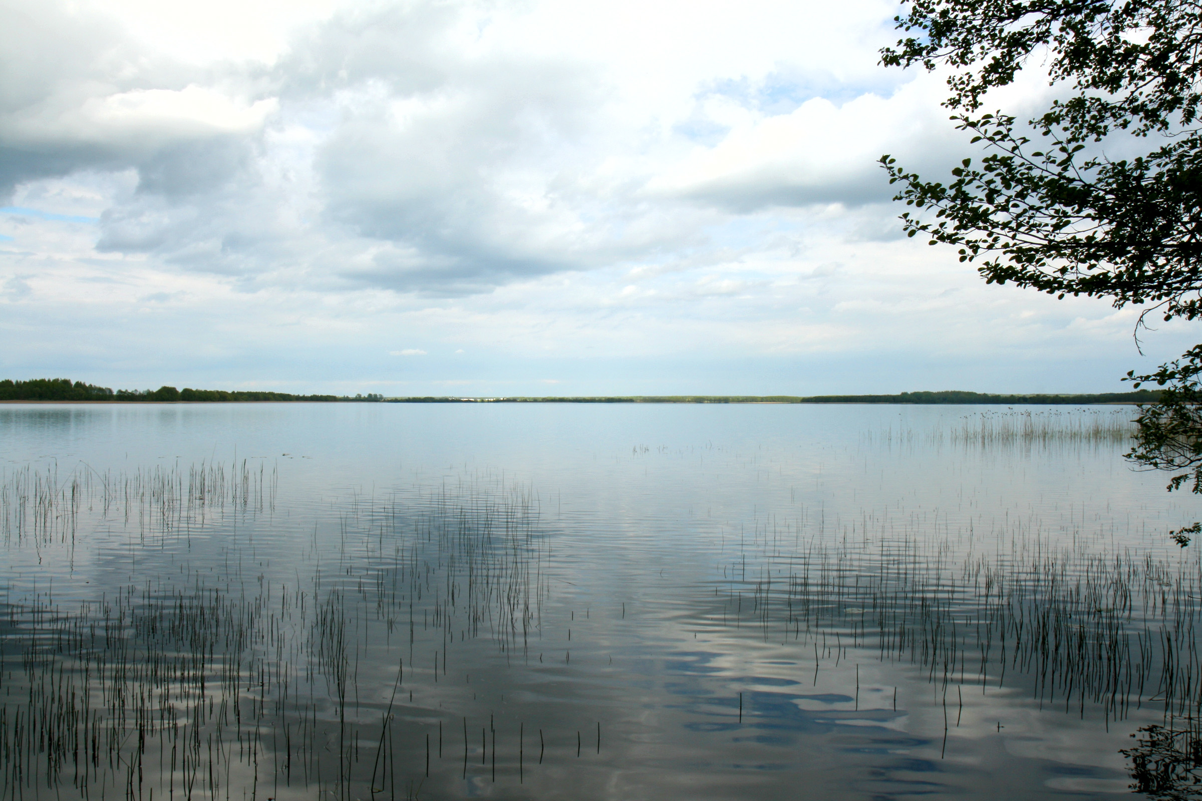 Batoryna lake in Miadziel Raion, Minsk Region, Belarus.